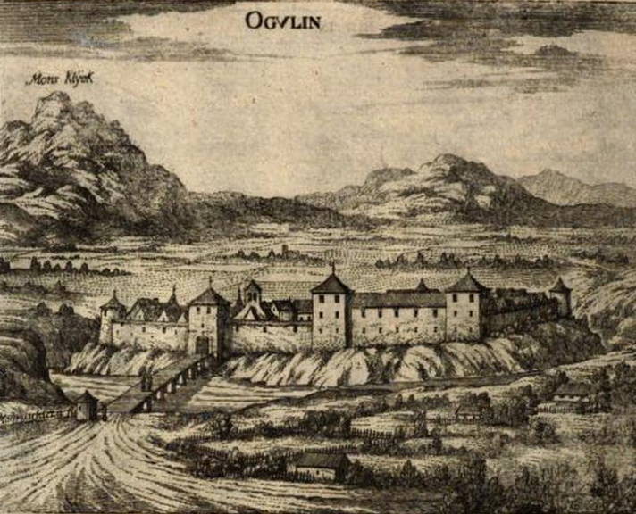 Ogulin (in: Johann Weikhard von Valvasor Die Ehre des Herzogthums Crain, 1689)